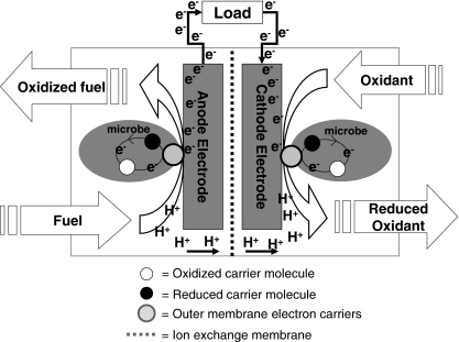 Schematic of a microbial fuel cell. Microbes facilitate the oxidation of fuel in order to drive a current.